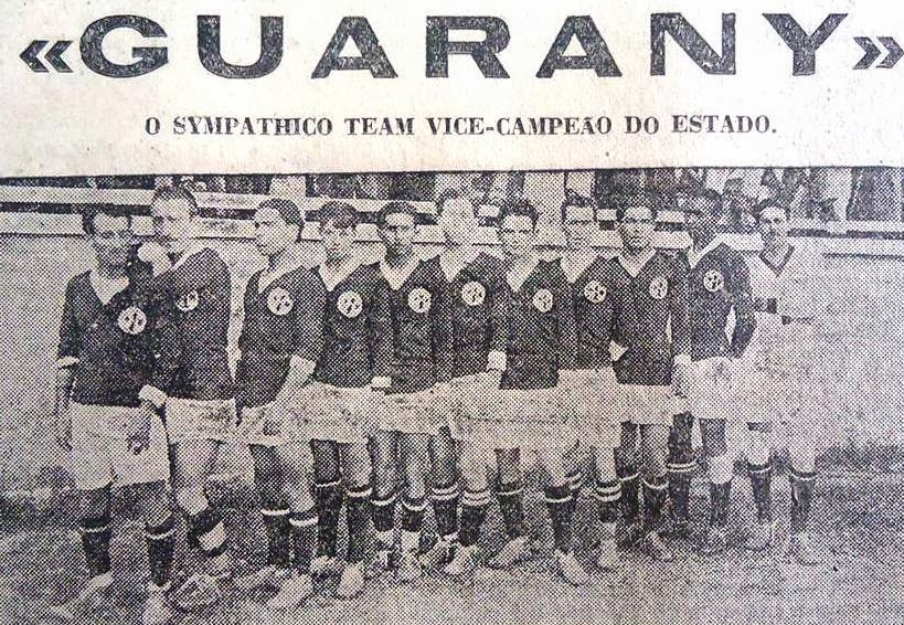 Guarani FC - Alegrete (RS): runner-up of the Championship of Rio Grande do Sul 1931 - Vicecampeão Gaúcho de 1931. Second from left/segundo da esquerda: Moderato Wisintainer (participant of the World Cup 1930 /participante da Copa do Mundo de 1930).